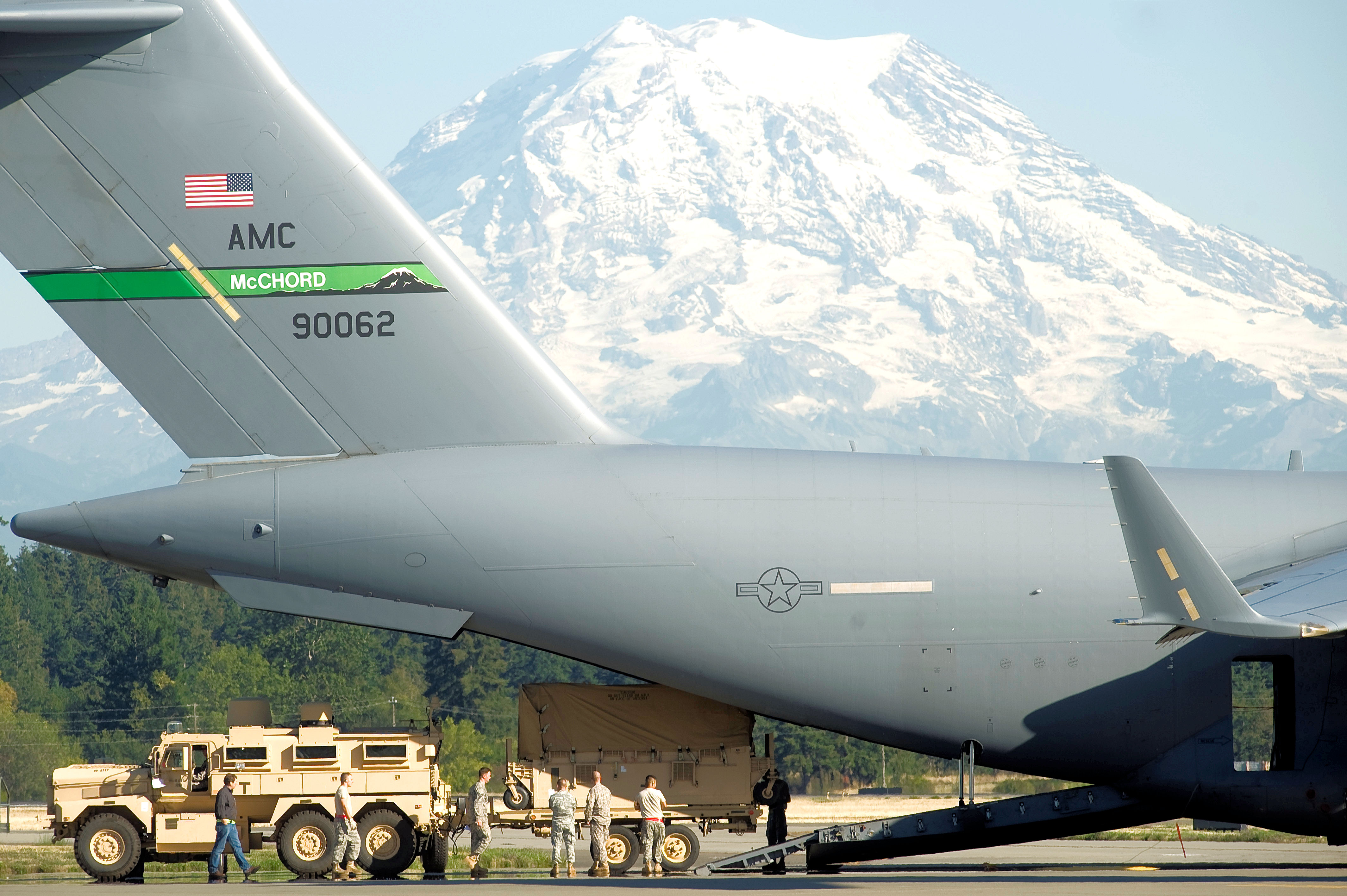 62d AW C-17 loading Army personnel from Fort Lewis